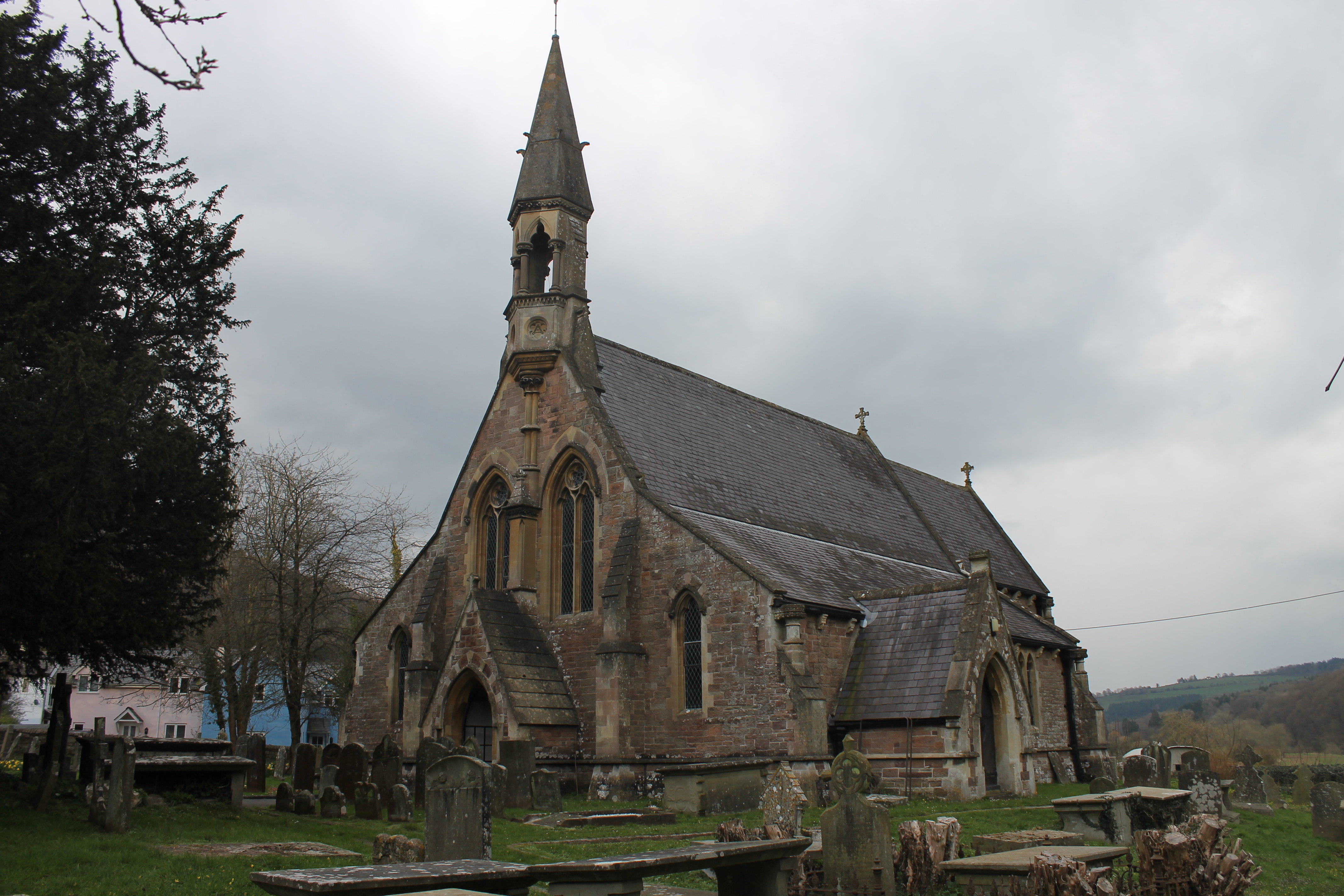 The village of Llandogo, Monmouthshire, Wales, with it's church: St Oudoceus.